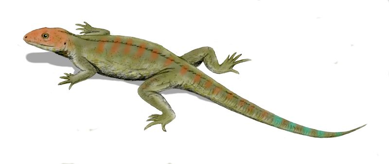 Hylonomus lyelli, an early reptile from the Late Carboniferous of Nova Scotia, Canada, pencil drawing